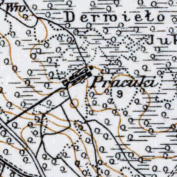 Pratsiuky on the map "Karte des Westlichen Russlands", T 36, 1917. According to Kujawsko-Pomorska Digital Library the map is in the public domain.